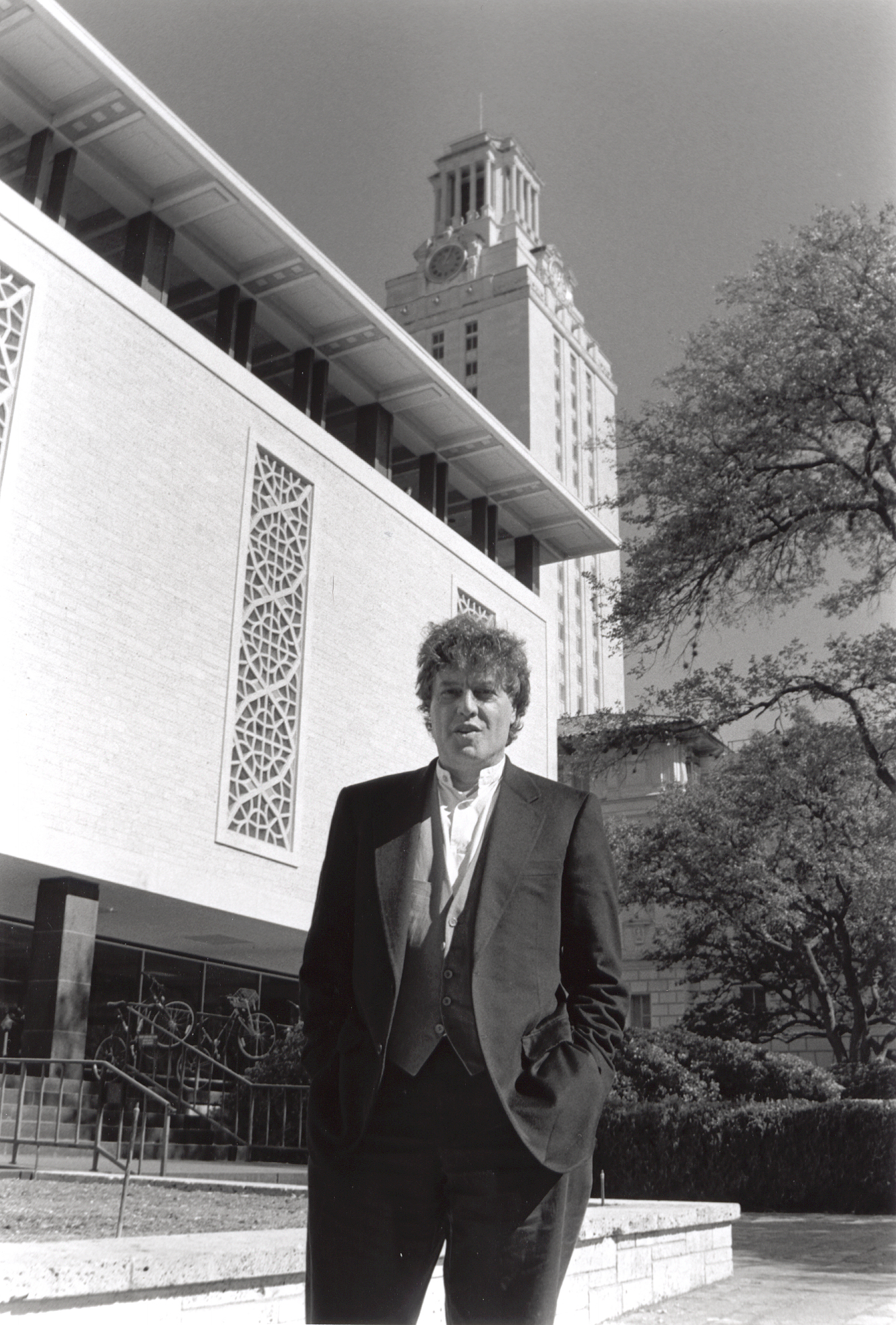 Tom Stoppard, whose archive resides at the Harry Ransom Center, on The University of Texas at Austin campus in 1996. Image courtesy of Harry Ransom Center.